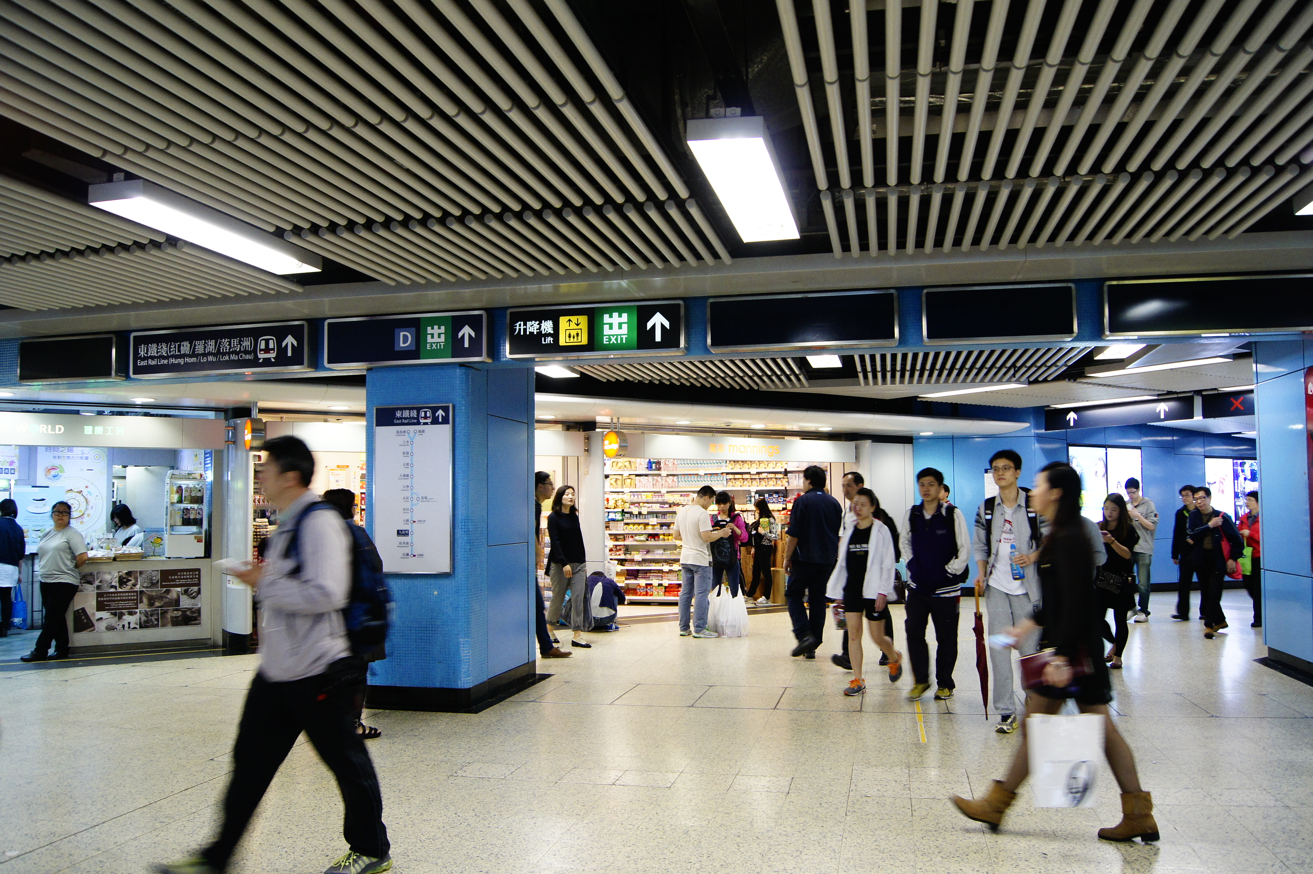 MTR Kowloon Tong Station Kwun Tong Line concourse